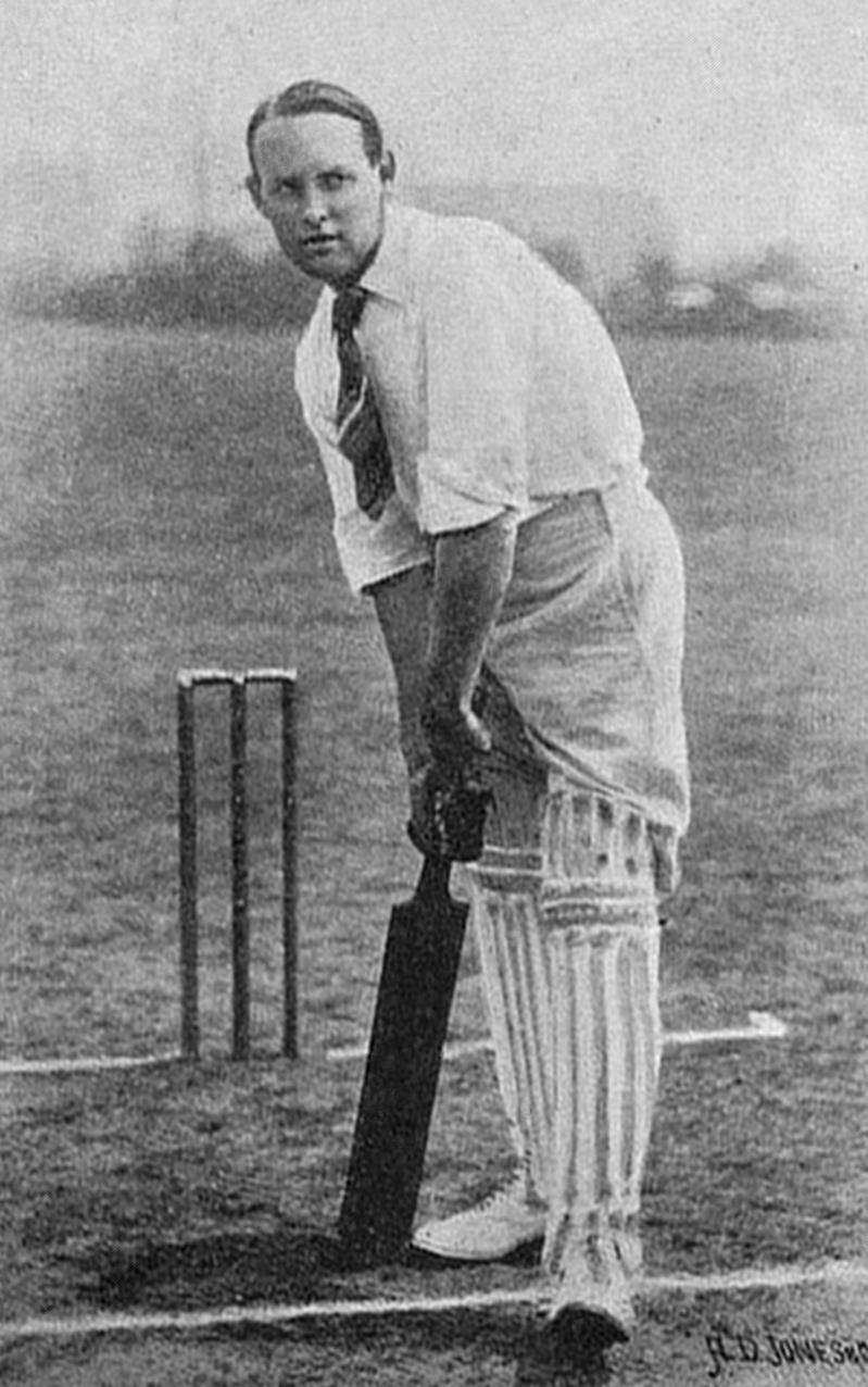 A scan of Arthur Hill from a book titled Famous Cricketers dated 1896